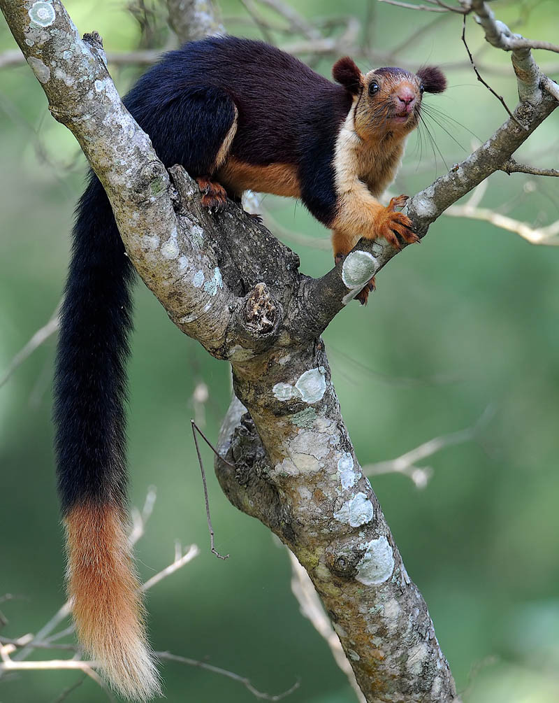 Ratufa indicus @ Bokkapuram, Masinagudi.